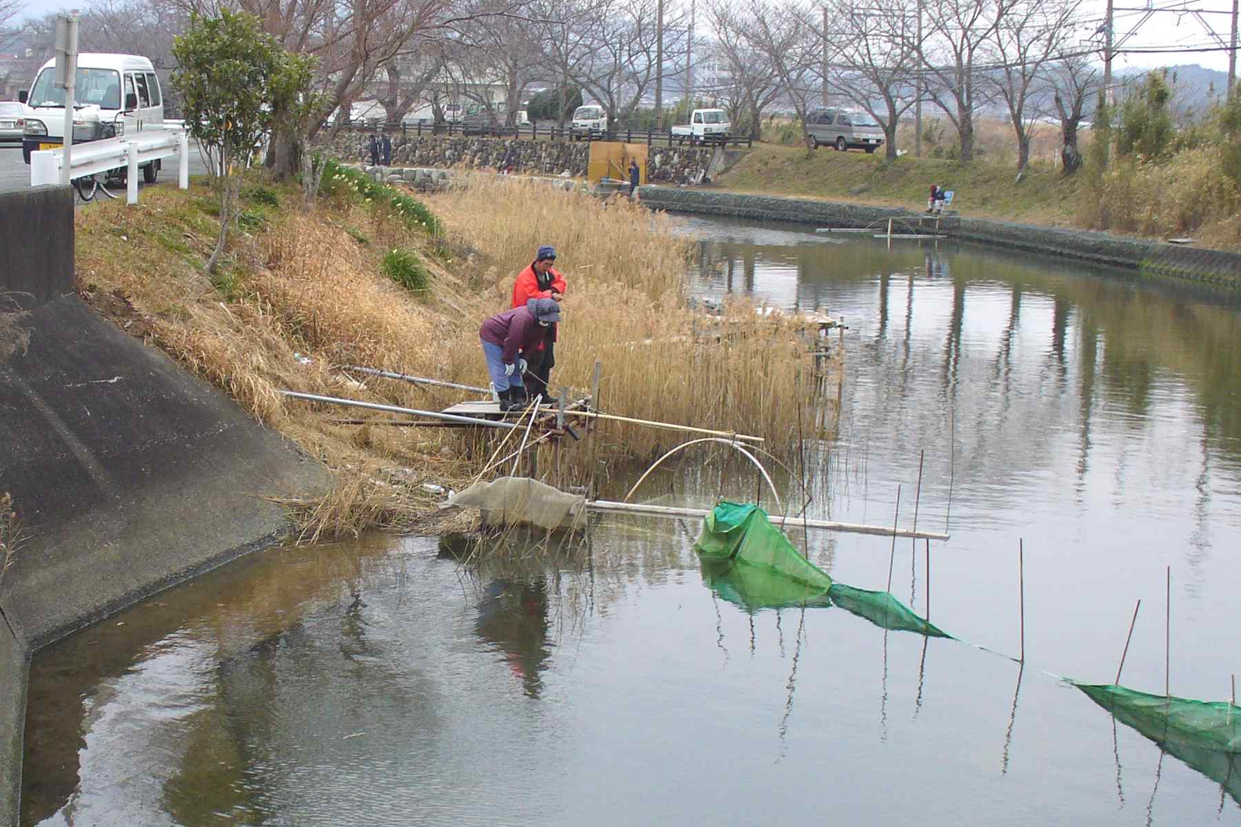 Ice goby (Leucopsarion petersii) fishing at Isobe, Shima, Mie, Japan.